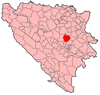 Location of Vareš municipality in Bosnia and Herzegovina.